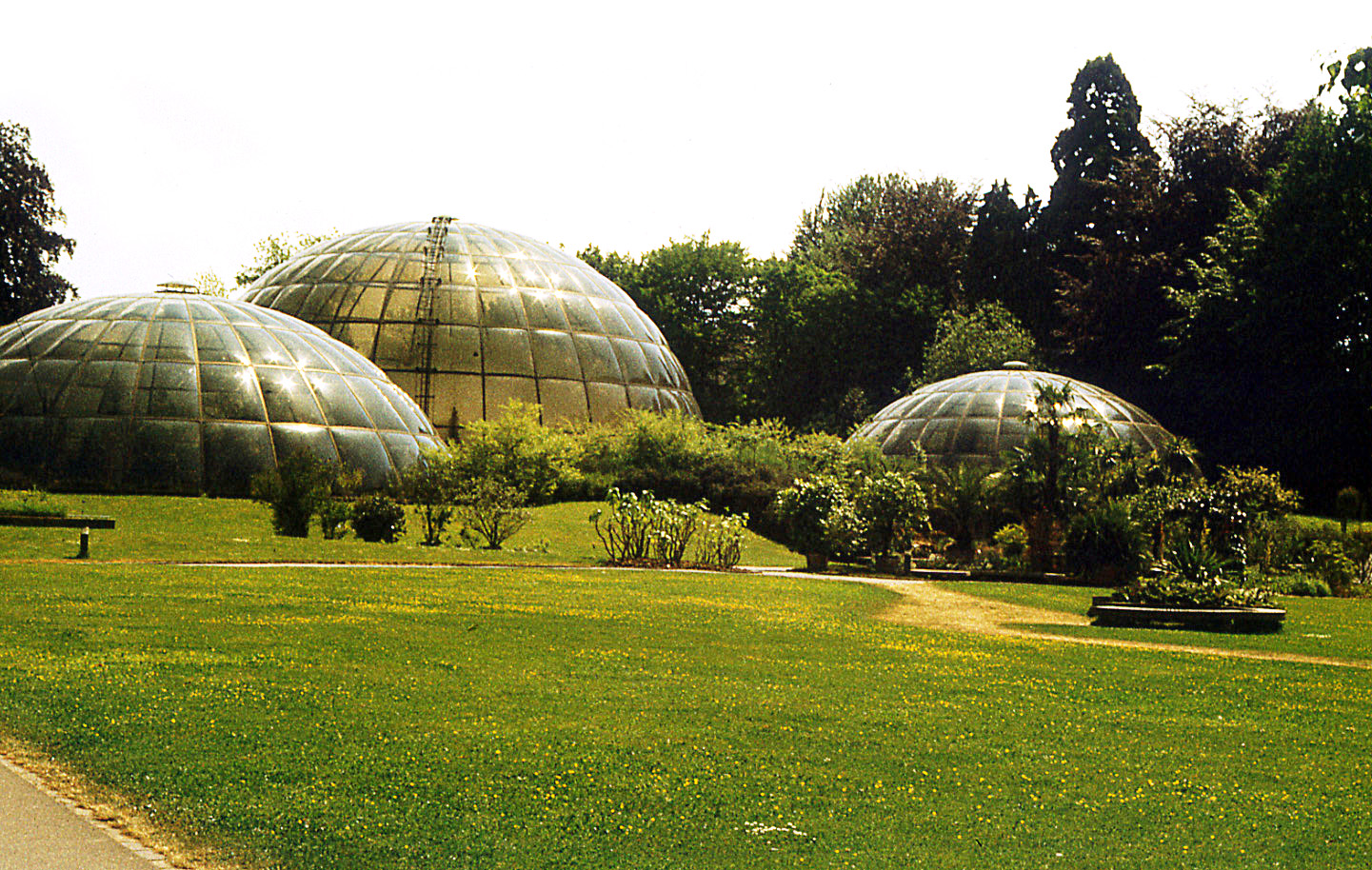 Botanischer Garten der Universität Zürich in 1989